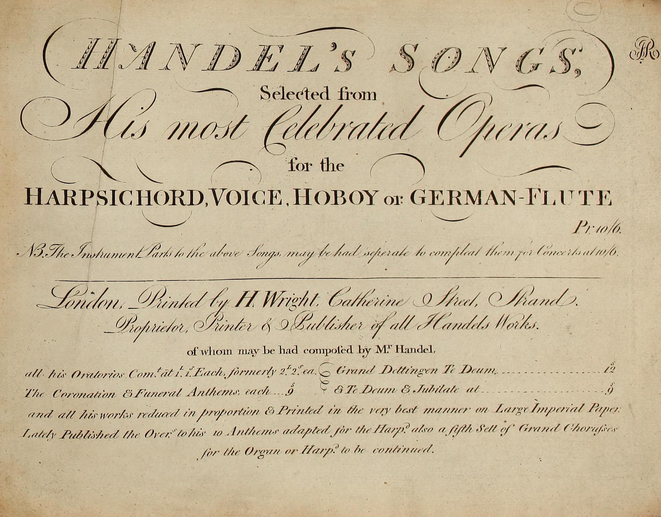 Cover of Handel songbook published by H. Wright, containing Handel opera arias